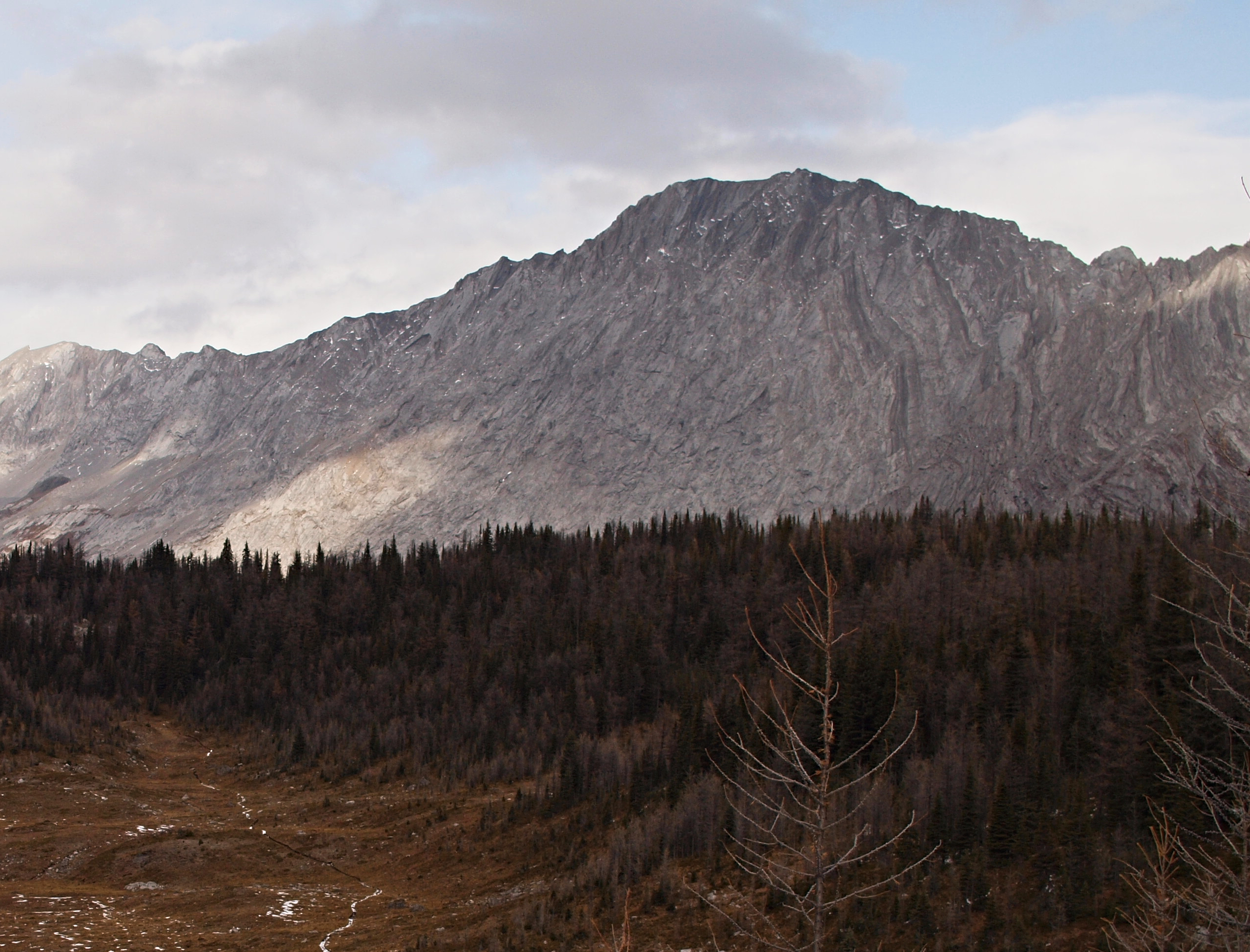 Mount Black Prince seen from Turbine Canyon, Kananaskis Country, Alberta Canada